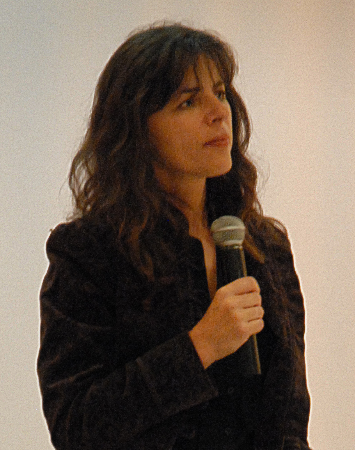 Mira Furlan